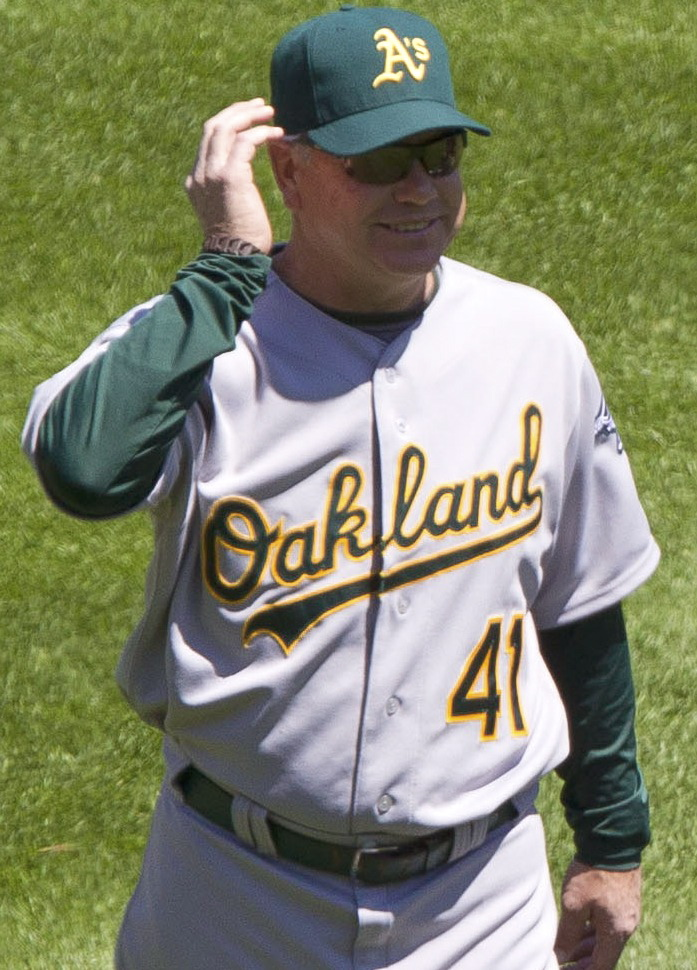 Oakland Athletics pitching coach Curt Young - Athletics at Orioles April 29, 2012